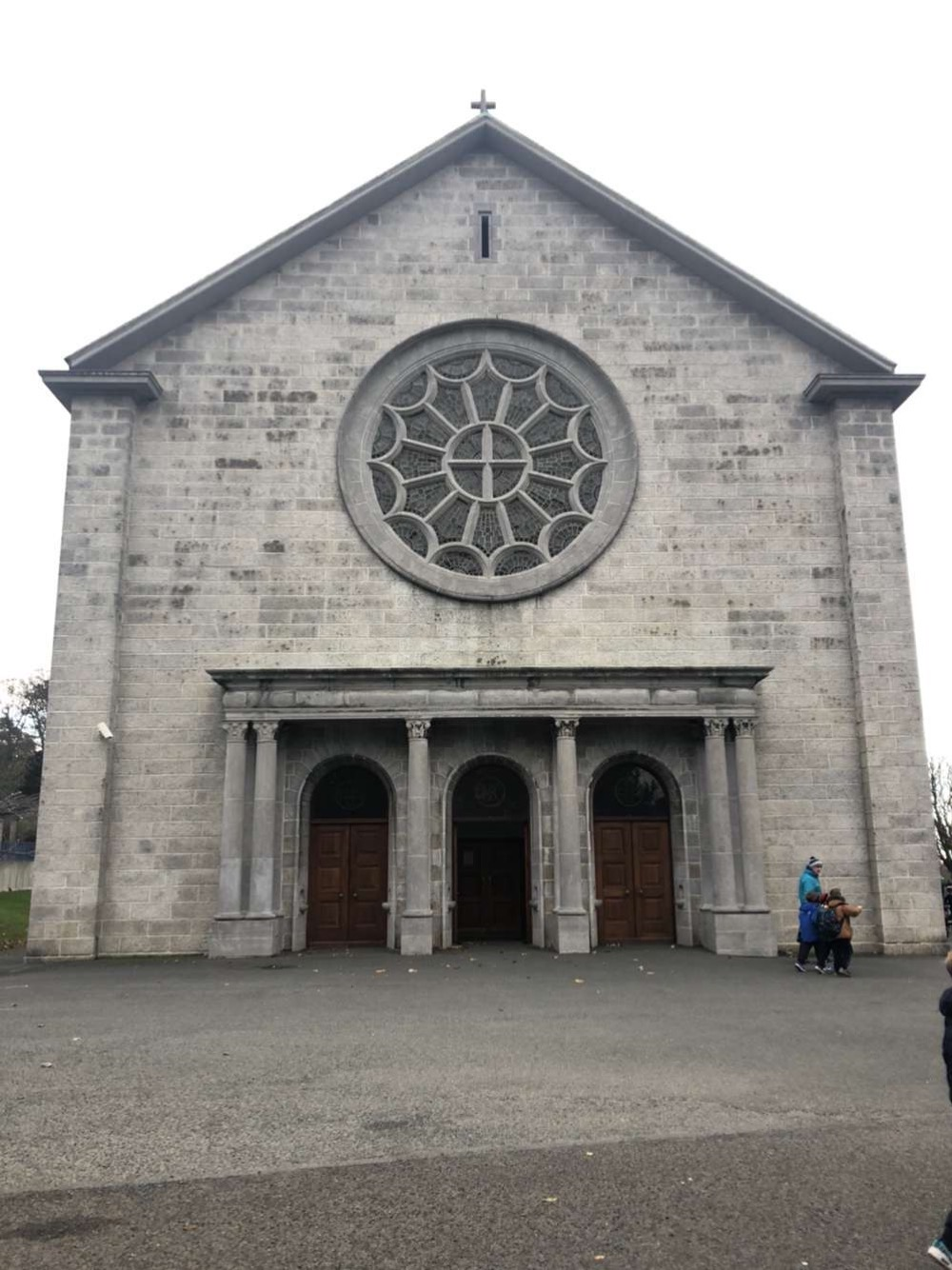 Picture of Church of St Thérèse, Mount Merrion, Dublin where Joss Lynams funeral was held.